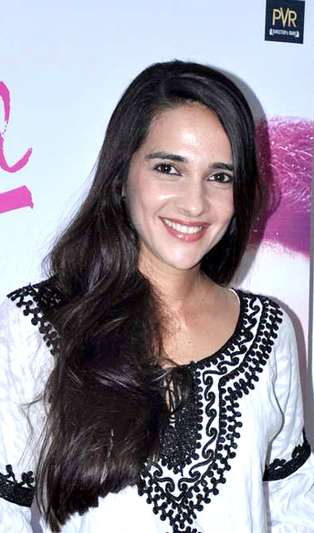 Tara promotes '10ml Love'